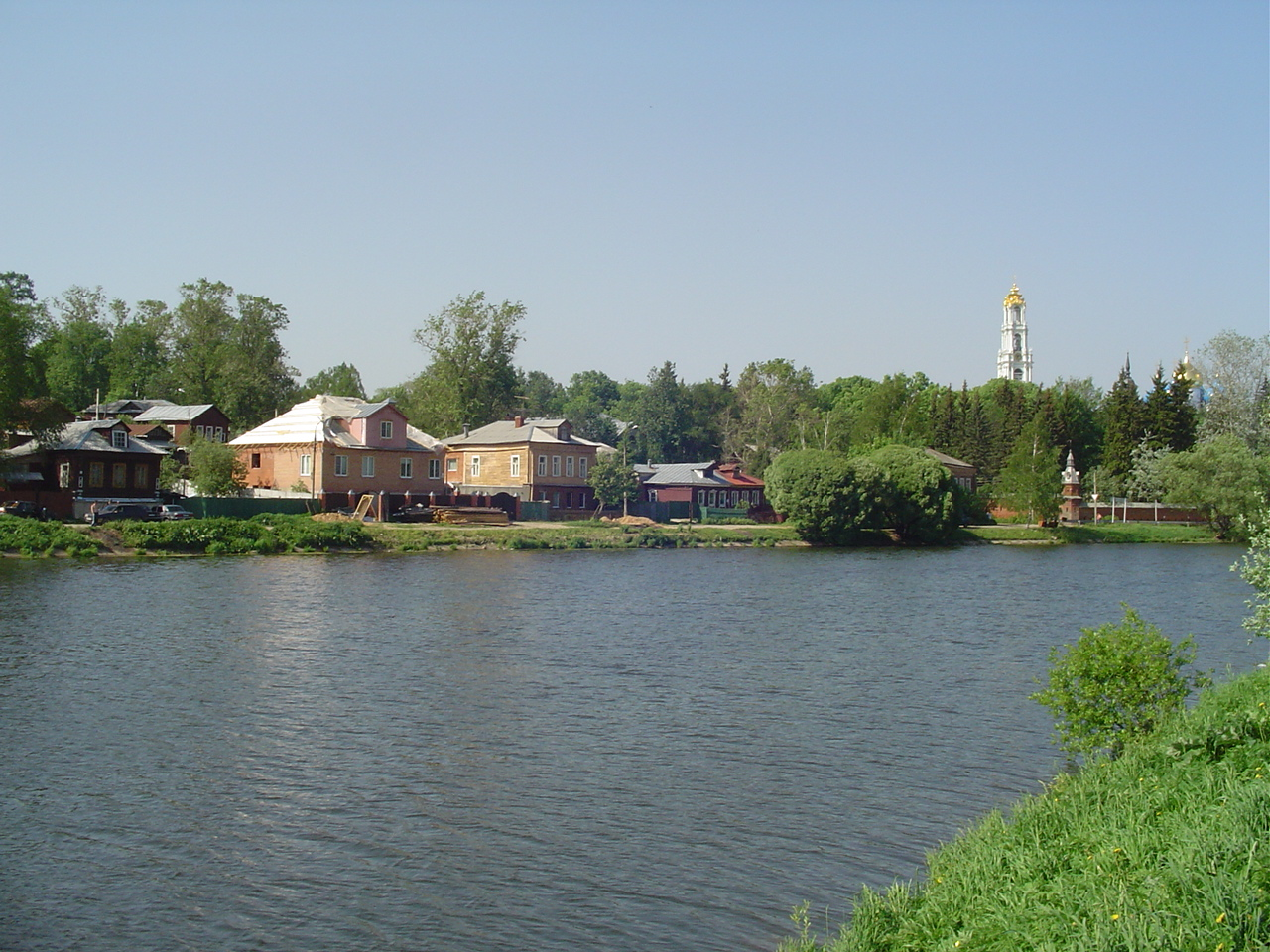 A pond in Sergiev Posad near the Trinity Lavra